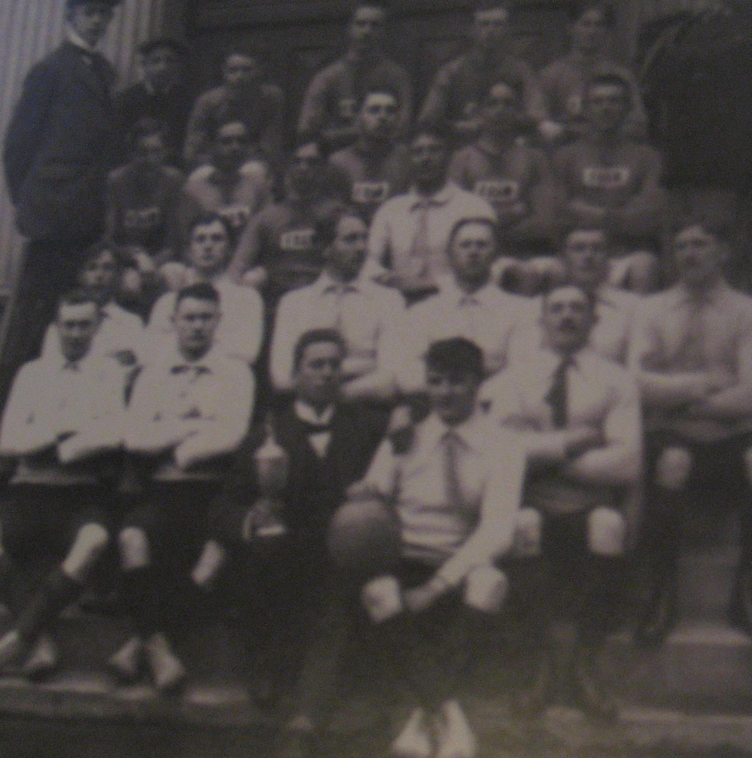 Football players of the icelandic clubs KR and Fram in a playoff 1912.